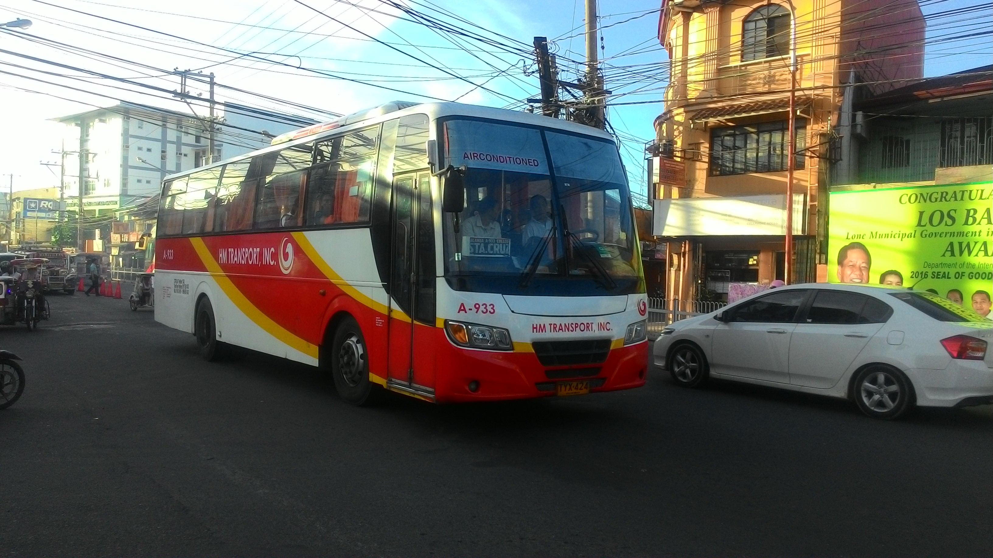 This bus was one of the units burned down by unknown persons. HMTI rehabbed it for Alabang - Sta. Cruz operations.